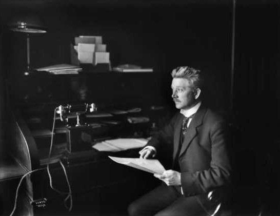 Magnus Nilssen